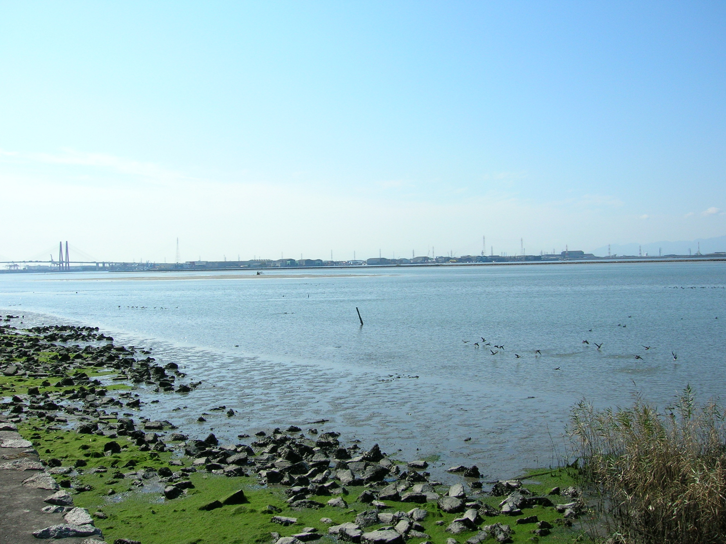 Fujimae Higata (Fujimae Tidal Flat, Ramsar site of Japan) Loc: Inae Park, Minato-ku, Nagoya city, Aichi Prefecture, Japan. 藤前干潟鳥獣保護区内、庄内川河口干潟 撮影場所 愛知県名古屋市港区・稲永公園